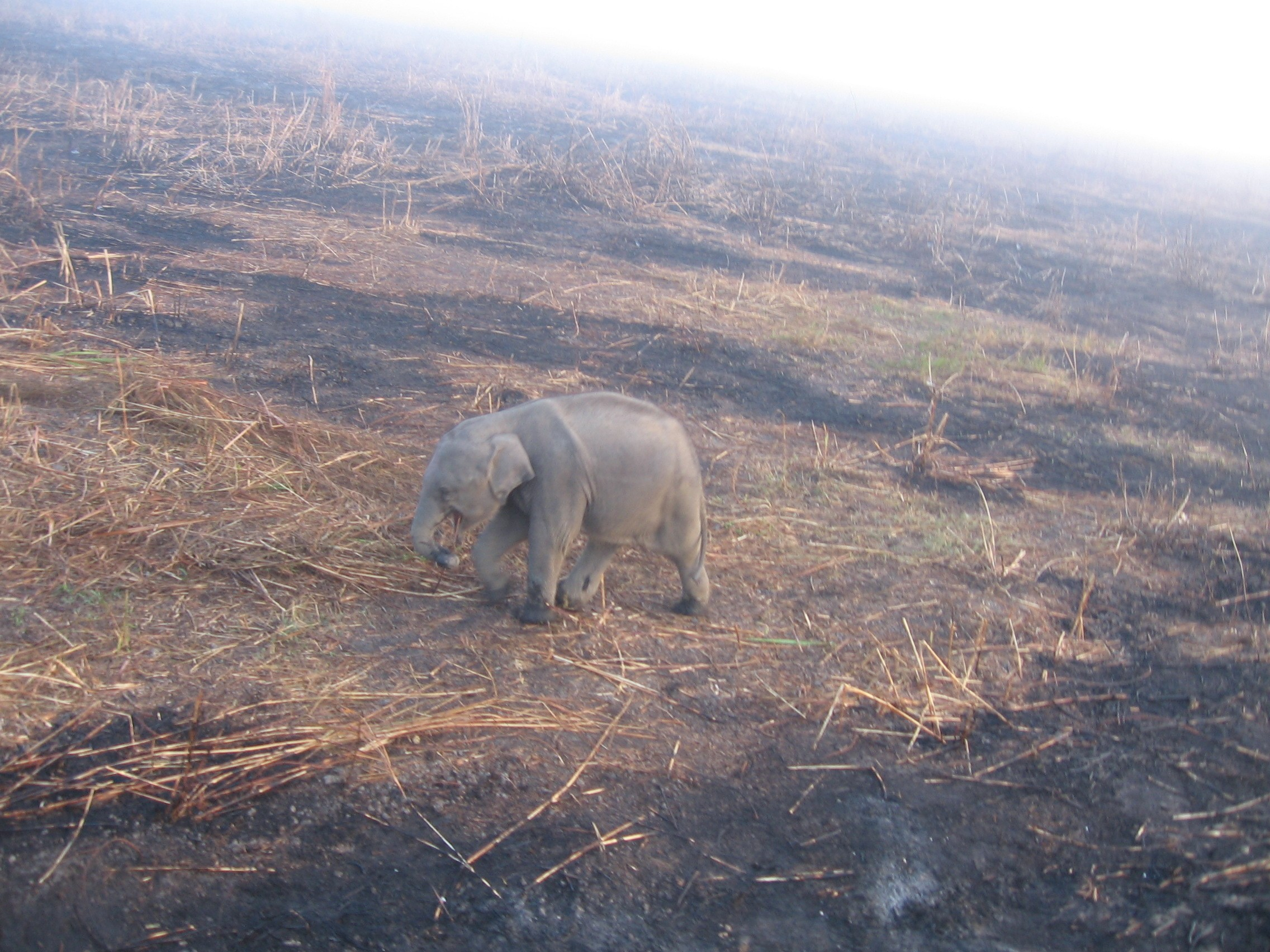 A baby elephant (Elephas maximus) walking through the burnt grass in Kaziranga.